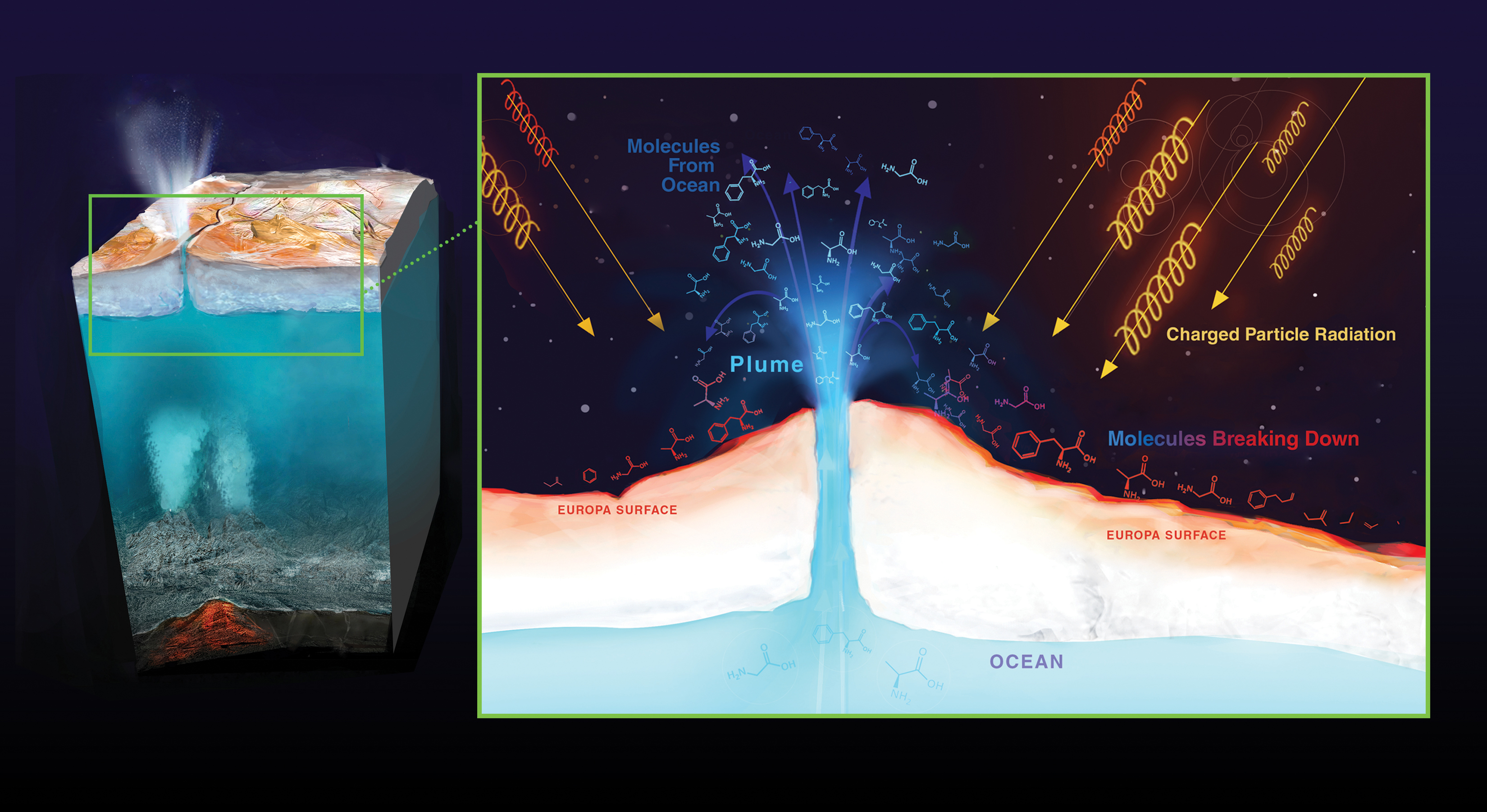 PIA22479: Radiation on Europa (Artist's Rendering) Radiation from Jupiter can destroy molecules on Europa's surface. Material from Europa's ocean that ends up on the surface of Europa will be bombarded by radiation. The radiation breaks apart molecules and changes the chemical composition of the material, possibly destroying any biosignatures, or chemical signs that could imply the presence of life. To interpret what future space missions find on the surface of Europa we must first understand how material has been modified by radiation.